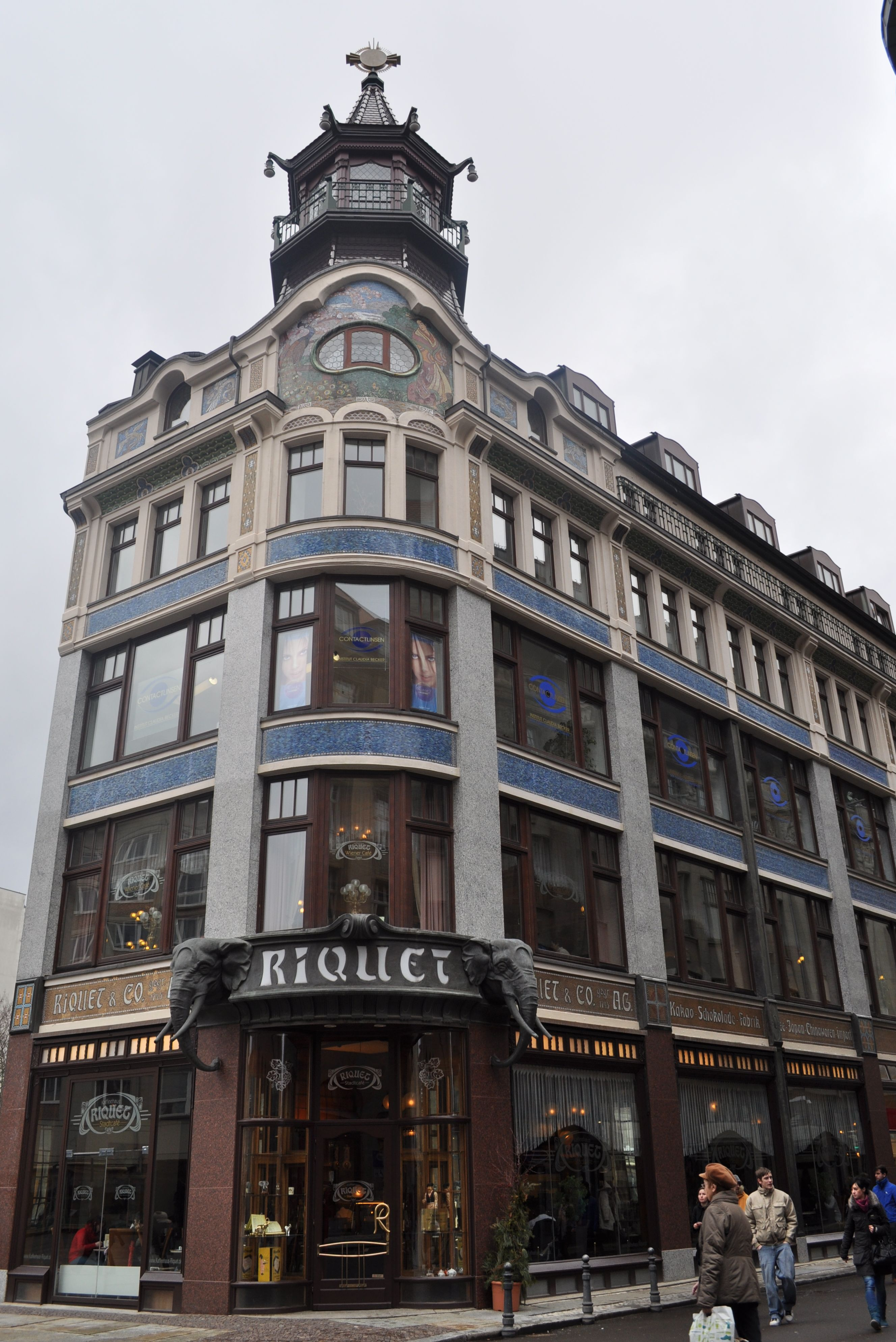 Cafe Riquet Leipzig